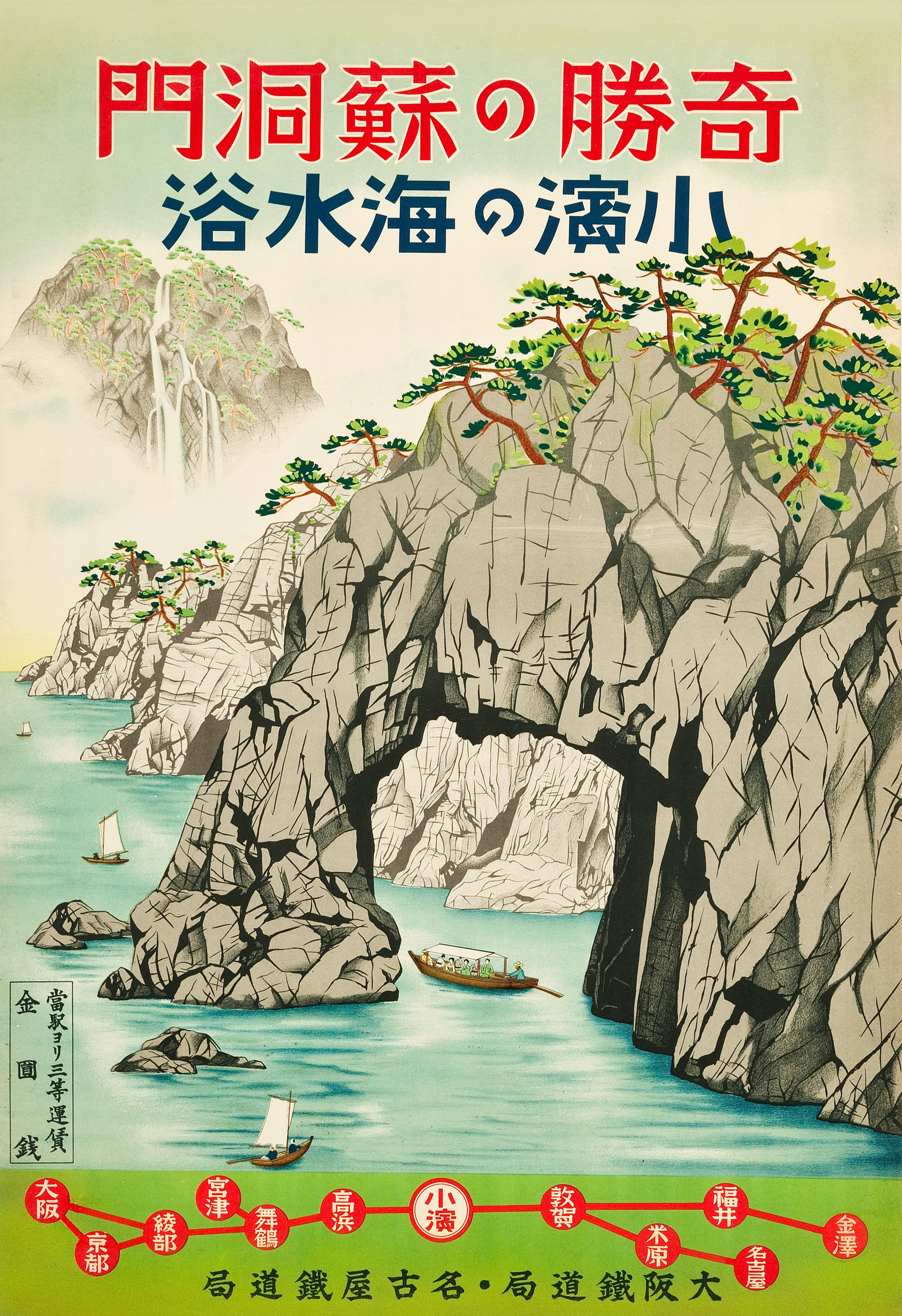 Sea Bathing in Obama, Fukui (Osaka and Nagoya Rail Agency, 1930s). Japanese Poster (21" X 30").